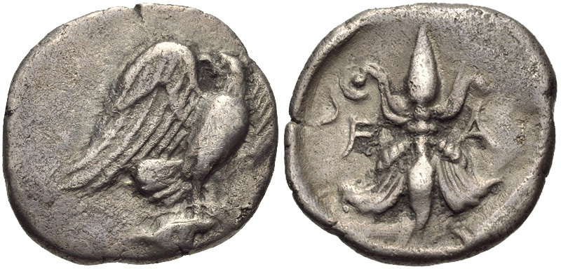 Hemidrachm, 432-420 BC, Olympia. 87-90th Olympiad